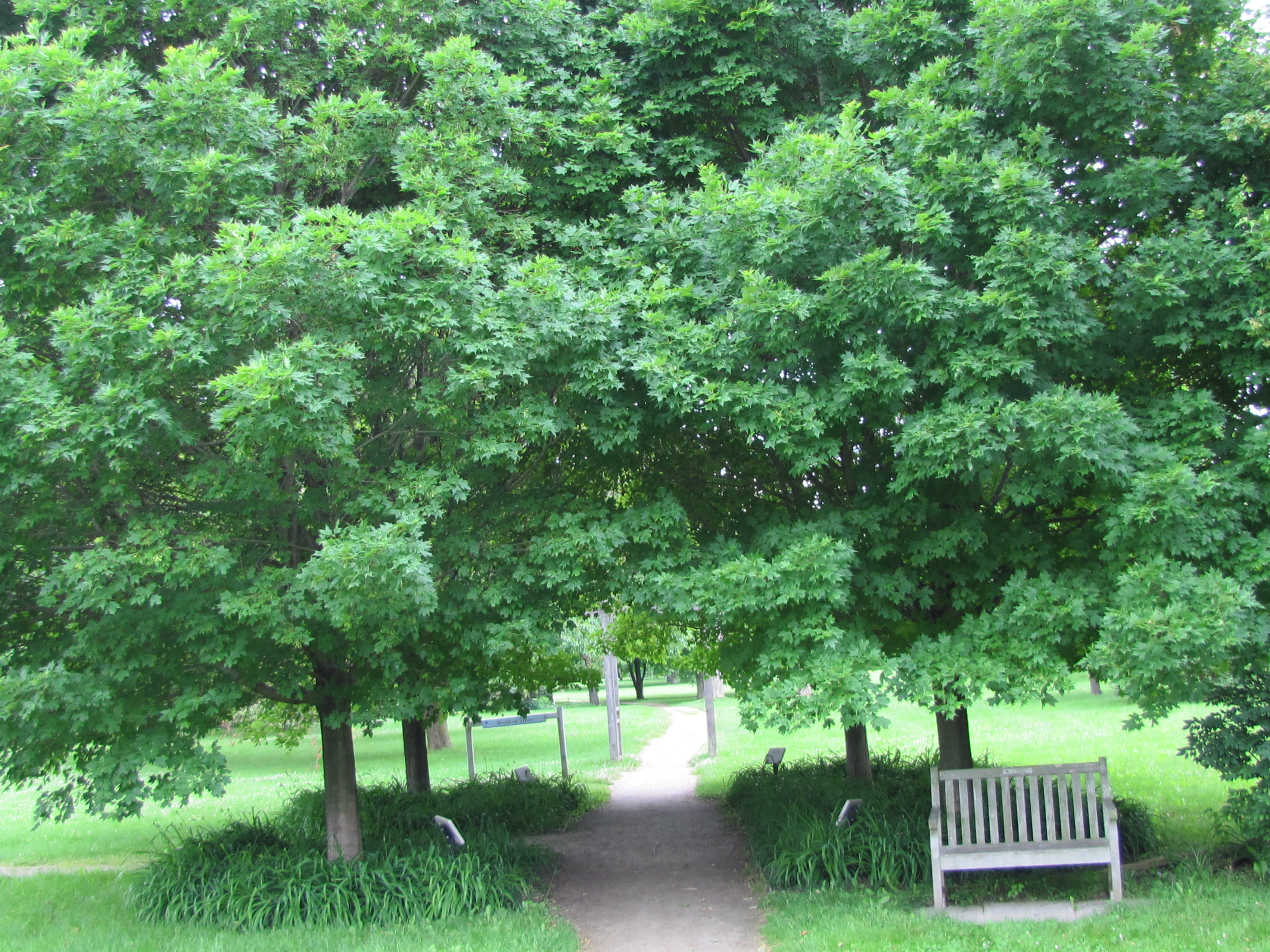 General view of World of trees - Guelph Arboretum